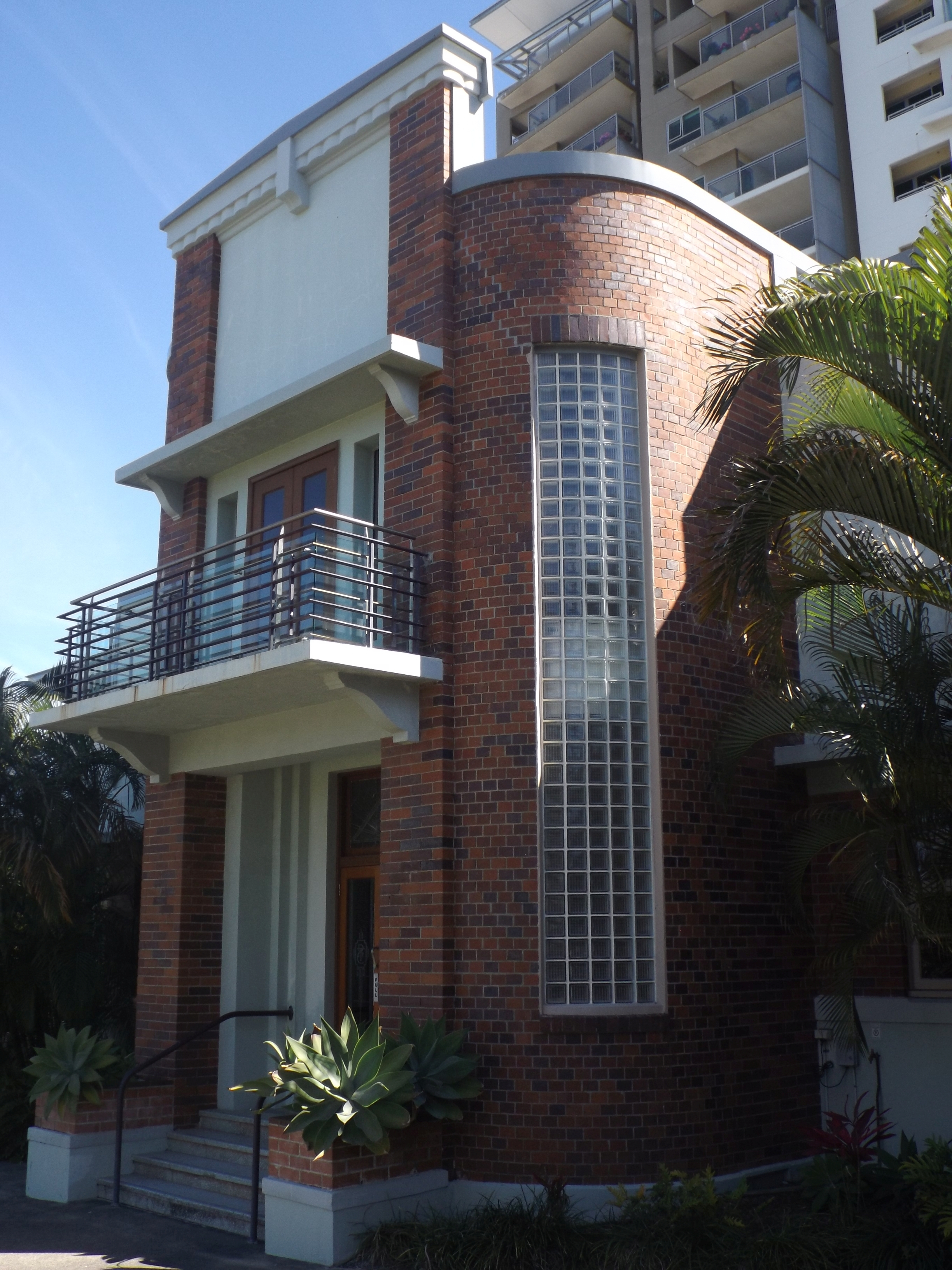 Photo of the front of the former Redcliffe Town Council Chambers at Redcliffe, Moreton Bay Region, Queensland, Australia.